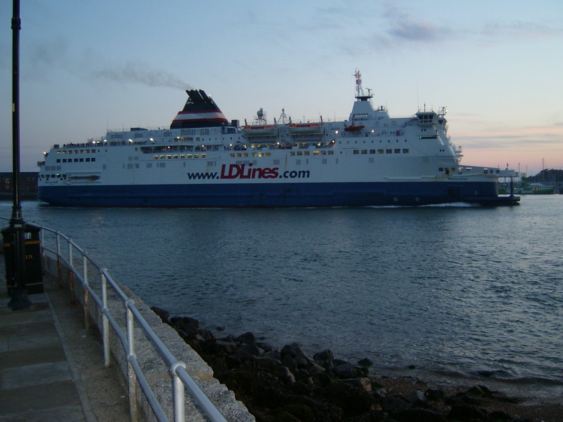 M/V Norman Spirit IMO Number: 8908466 MMSI Number: 235036658 Callsign: MMUC3 Length: 165 m Beam: 26 m